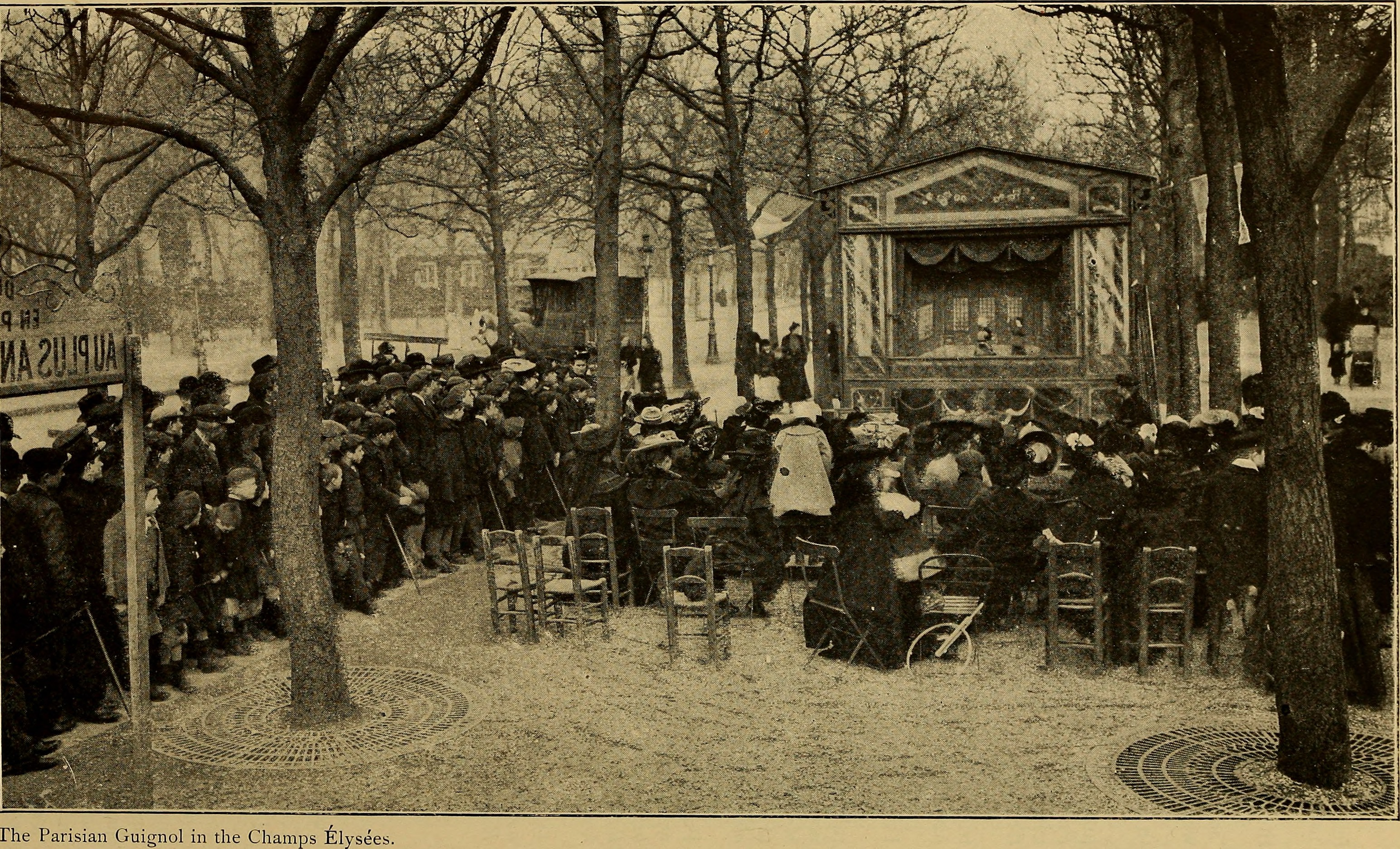 Title: Outing Year: 1885 (1880s) Authors: Subjects: Leisure Sports Travel Publisher: (New York : Outing Pub. Co.) Text Appearing Before Image: . In 1721 Le Sage was writing plays forpresentation by Polichinelle and his sup-porting company. In the Combat deCyrano de Bergerac, the predecessor ofRostands masterpiece, he figures aspetit Esope de bois, remuant, tournant,virant, dansant, riant, parlant, petant,and again as cet heteroclite marmouset,disons mieux ce drolifique bossu, fit char-acterization of a puppet born to eternalwelcome in French hearts. In England, appearing in the wake ofthe Scriptural motions, themselves thesuccessors of the most ancient of all puppetplays, the old English Mysteries, hecame to a popularity and a finished de-velopment of his art which exist undimin-ished to this day. Such bits of the history of Punch, how-ever, were quite outside the knowledgeof this old showman of yours; but he couldtalk for hours, and entertainingly, too, oflife on the road in rural England, wherehe had traveled, booth on back and withhis coddler or outside man as compan-ion, from one end of the tight little isleto the other. Text Appearing After Image: '